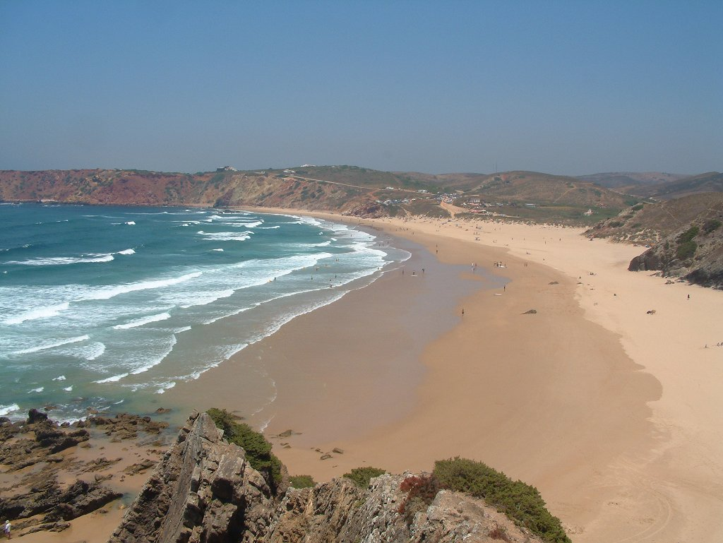 Author: Hans Lohninger Description: Praia do Amado at the Atlantic coast of Southern Portugal Reference